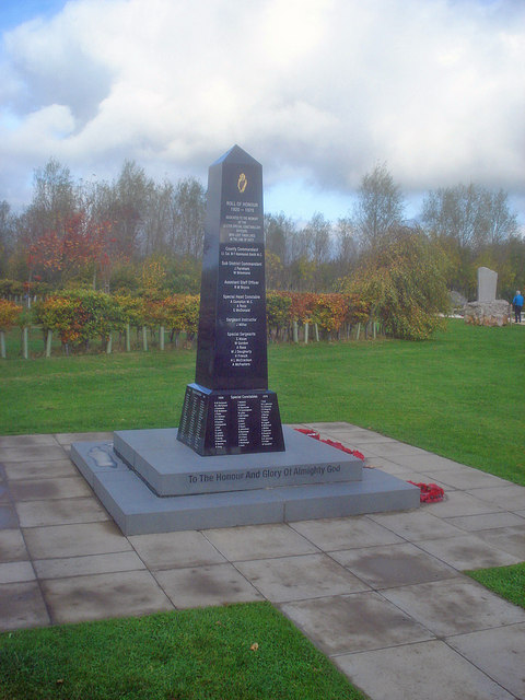 Ulster Special Constabulary Memorial This black marble and blue limestone memorial stands in the Ulster Ash Grove, the weeping ash trees representing those lost in the cause of peace in Northern Ireland. The Ulster Special Constabulary was formed in 1920 to work alongside the RUC and served until 1970, with most members being part-time volunteers.